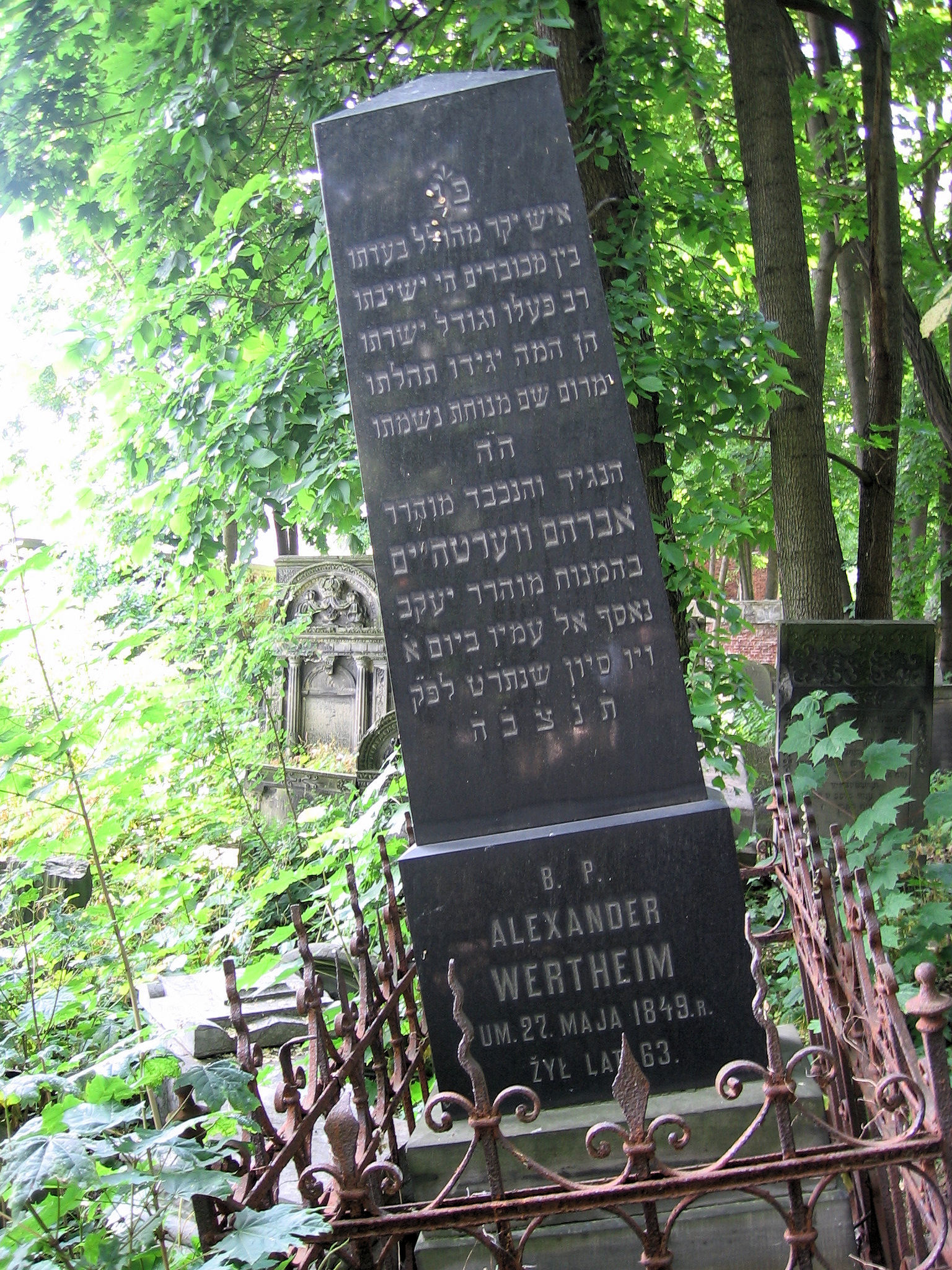 The grave of Aleksander Wertheim at Powązki Jewish Cemetery in Warsaw, Poland